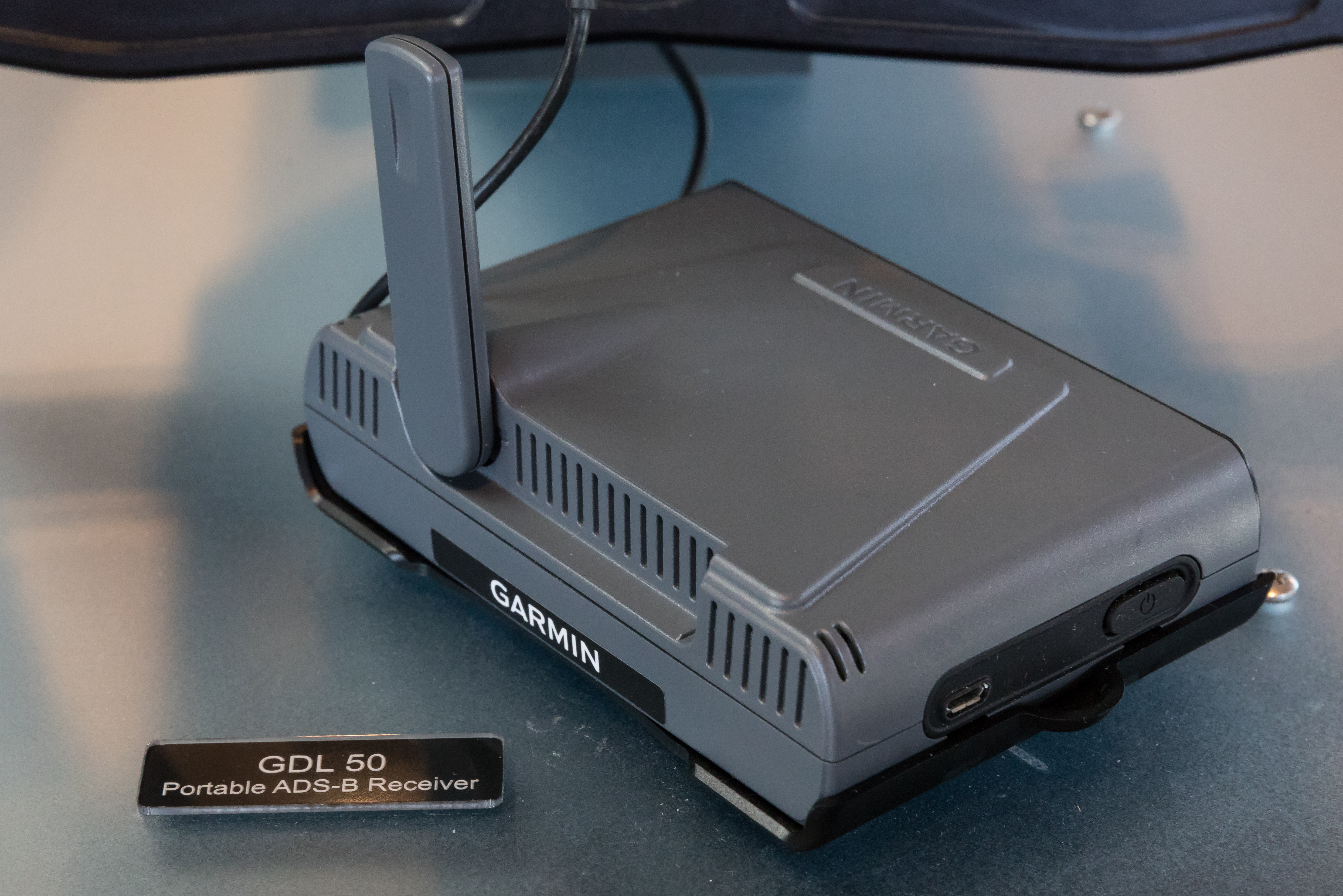 Garmin GDL-50 portable ADS-B receiver, AERO Friedrichshafen 2018